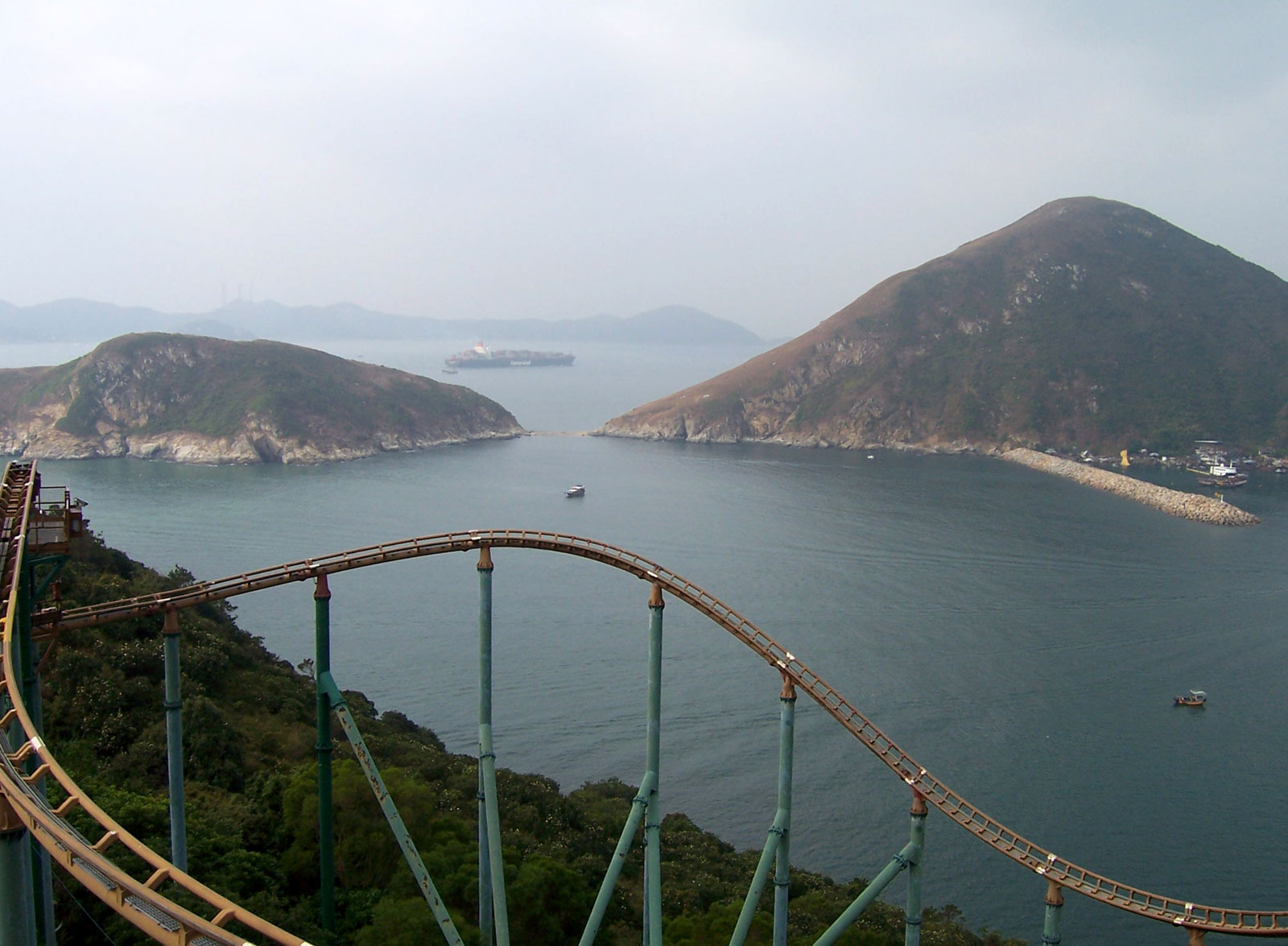 The view from the escalators at Ocean Park, Hong Kong, with the Mine Train ride in view. Taken by Enoch Lau on 1 January 2006. As a courtesy, please let me know if you alter this image or this image description page. Original filename was 100_1048.JPG.